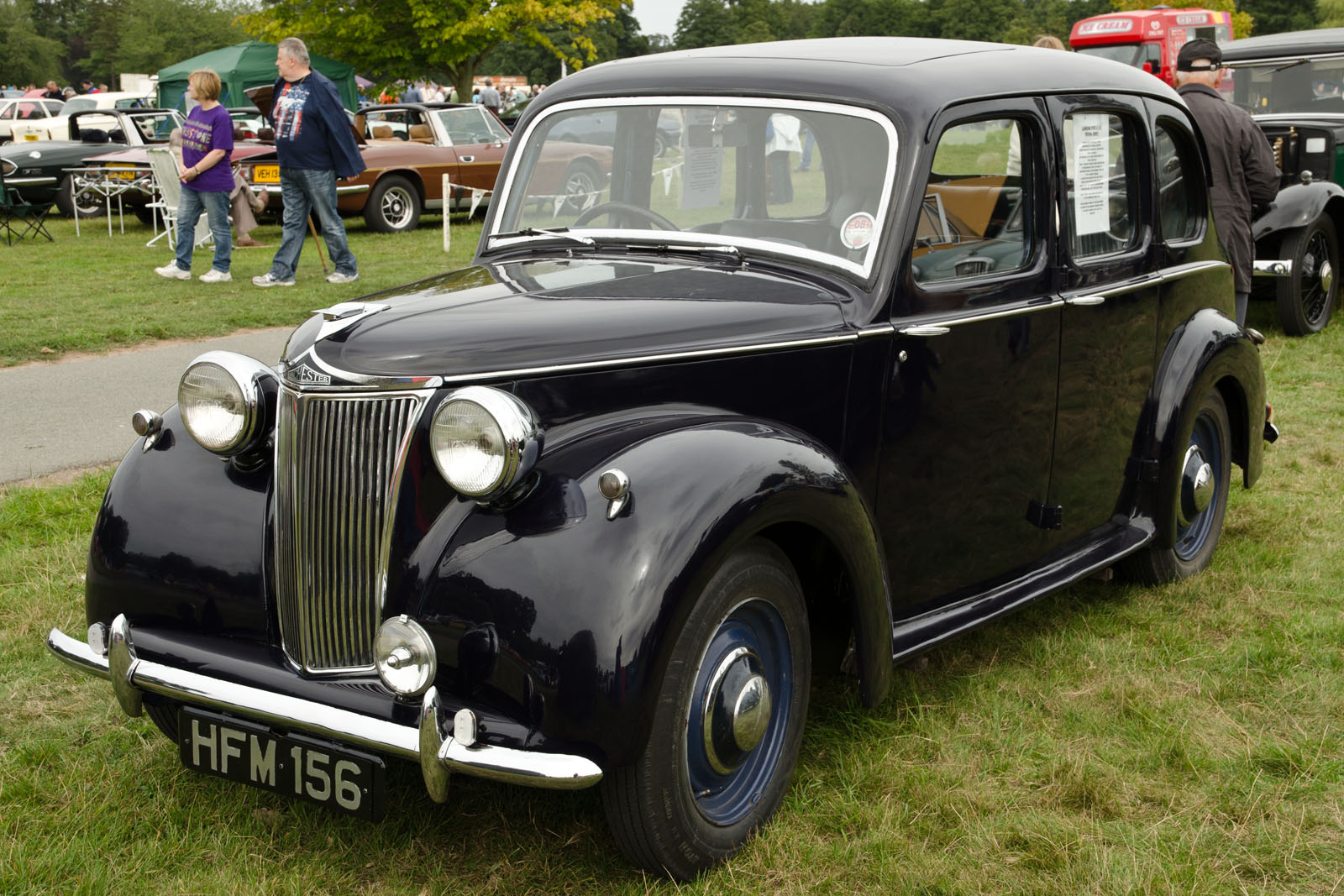 Lanchester 4-door six-light saloon 1947 (Briggs body)(DVLA) first registered 14 April 1947, 1287ccCholmondeley Classic Car Show 01/09/2013